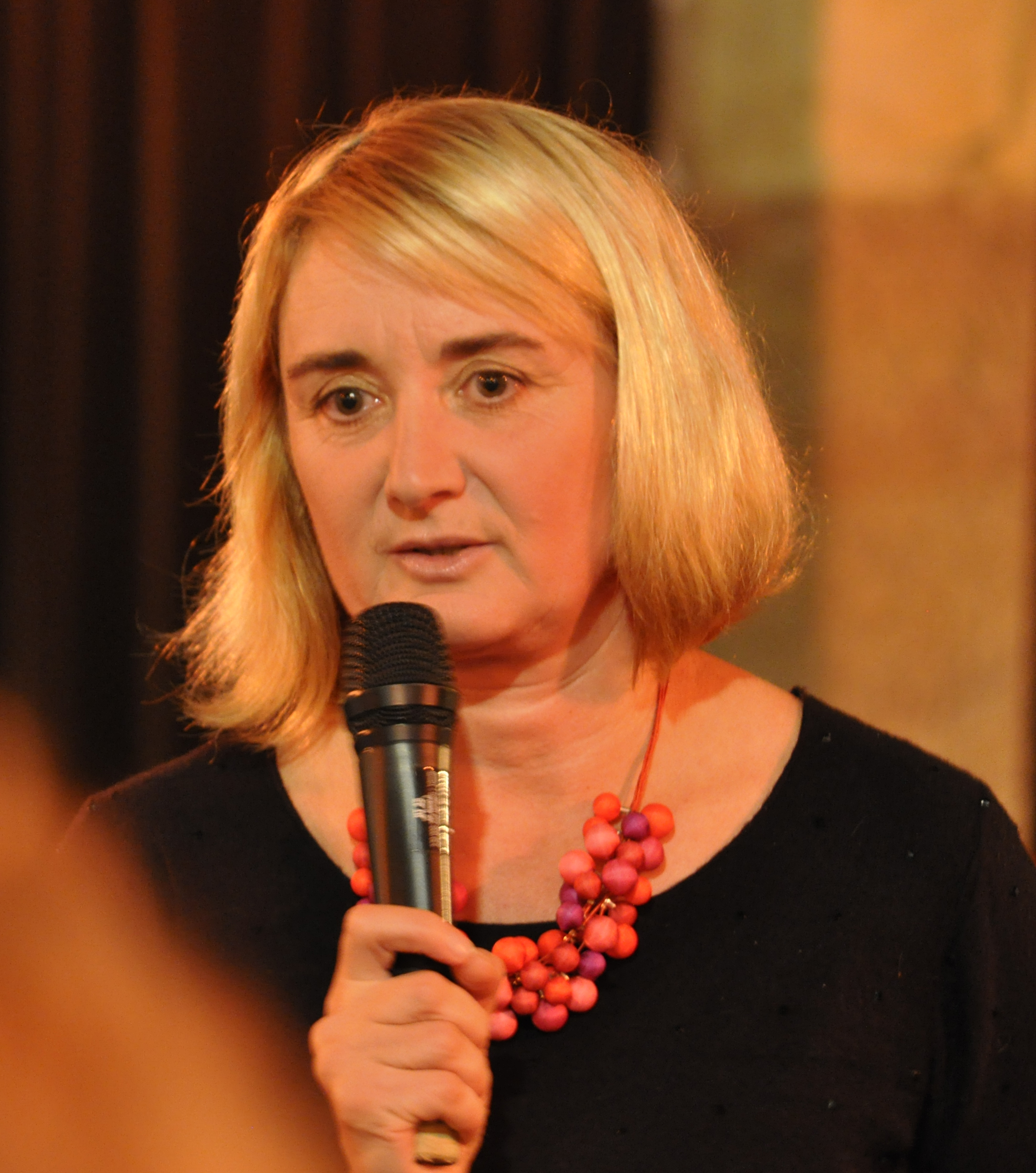 Jana Hybášková, October 2013